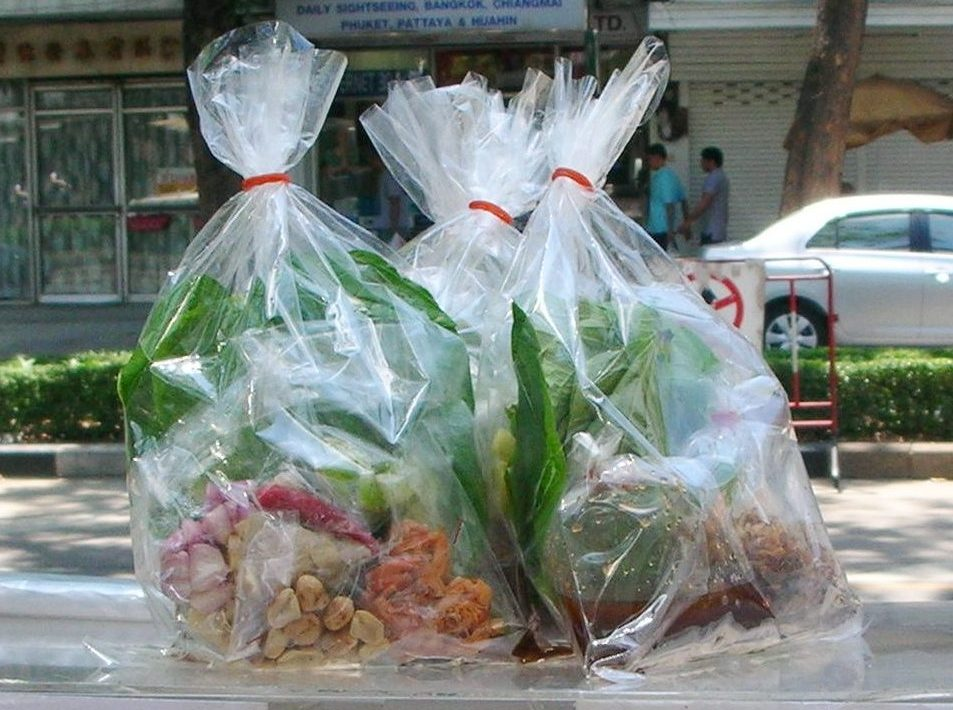 Miang kham bags for sale in Bangkok